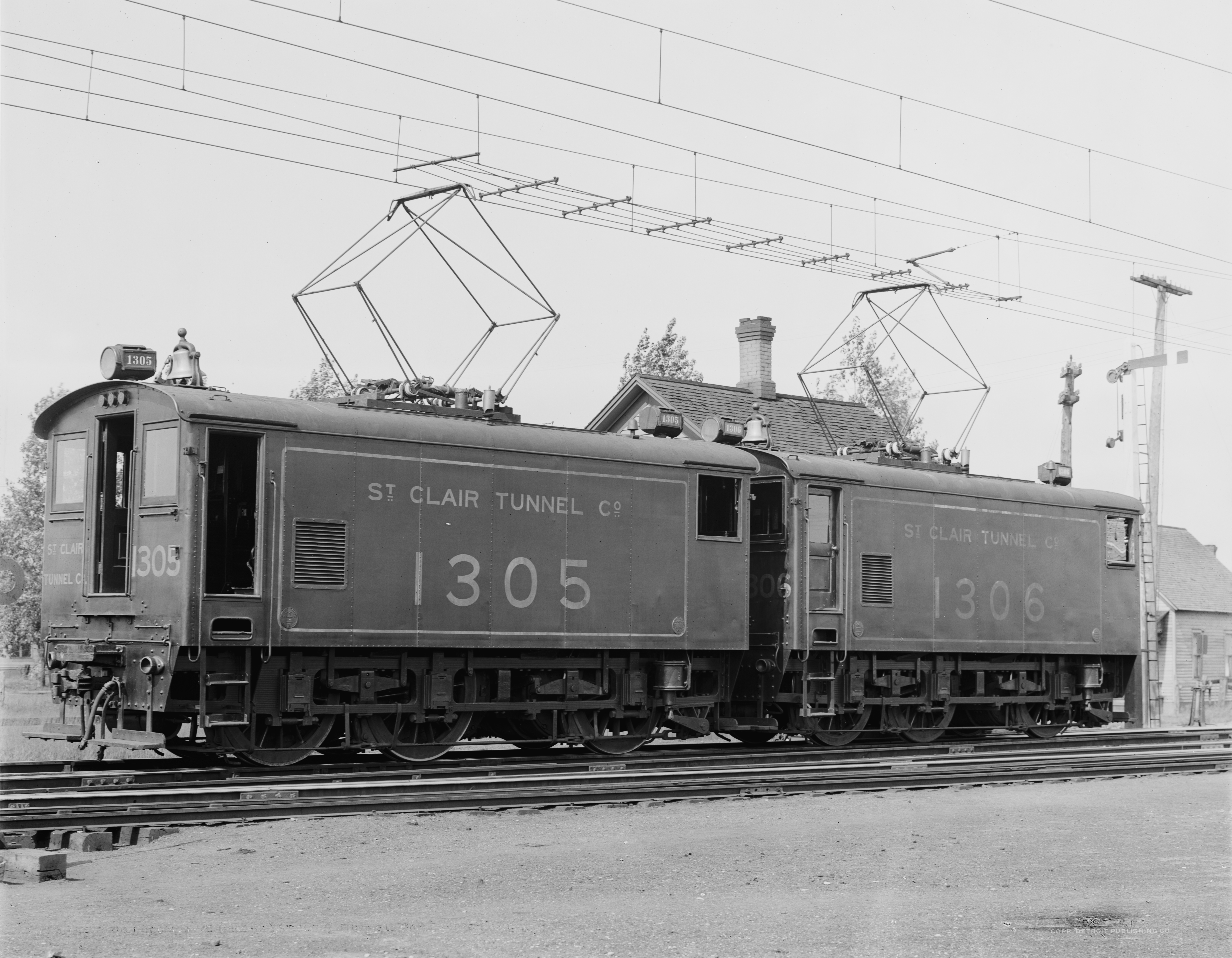 Engine, locomotive, 1500 h.p., Ste. Claire [i.e. St. Clair] tunnel, Port Huron, Mich. Medium: 1 negative : glass ; 8 x 10 in. Part of: Detroit Publishing Company Photograph Collection Reproduction Number: LC-D4-71418 (b&w glass neg.) Call Number: LC-D4-71418 [P&P] Repository: Library of Congress Prints and Photographs Division Washington, D.C. 20540 USA Notes: o Detroit Publishing Co. no. 071418. o Gift; State Historical Society of Colorado; 1949.